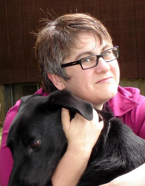 Bi-identified American LGBT Rights Campaigner and Animal Rights Campaigner Wendy Curry with one of her rescued dogs Tuck